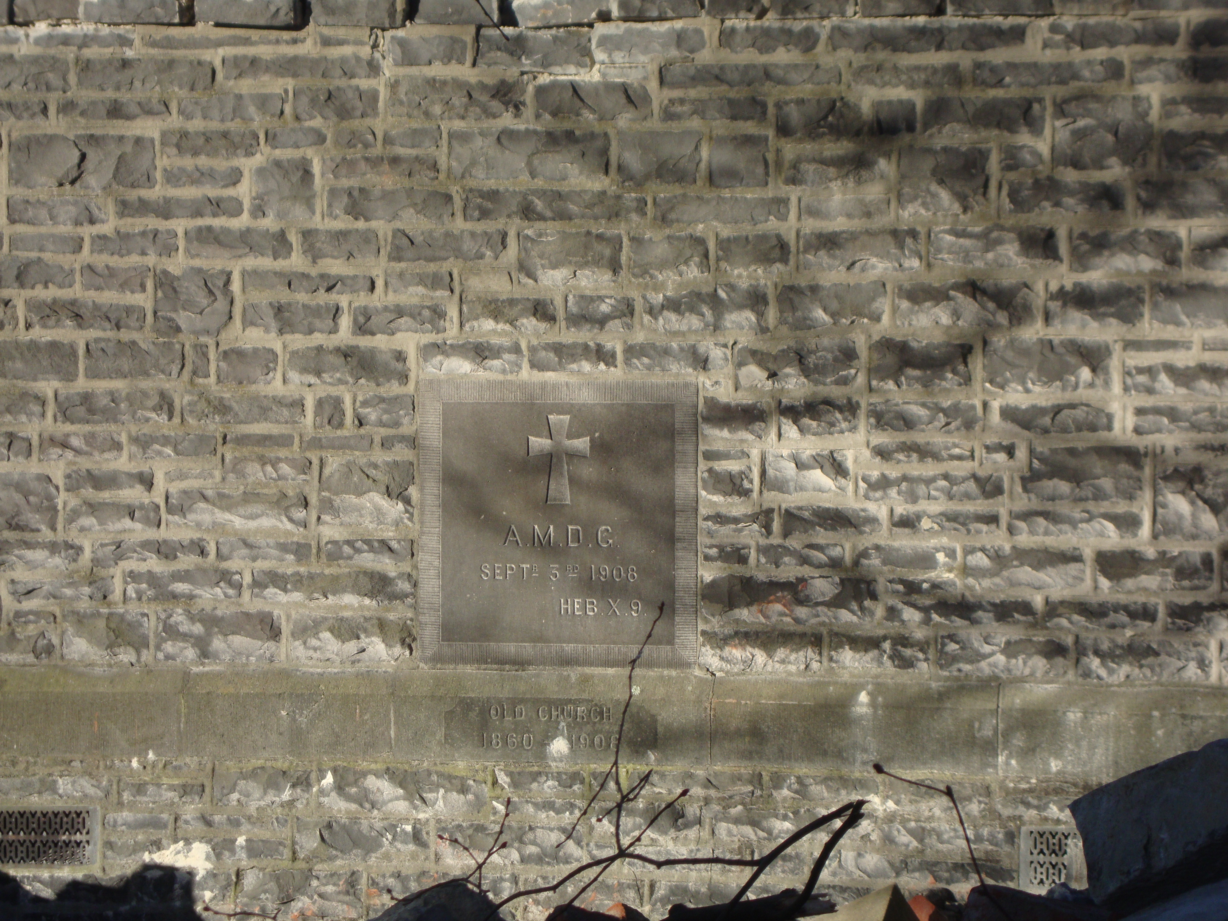 Foundation stone at St Lukes Church, Christchurch.